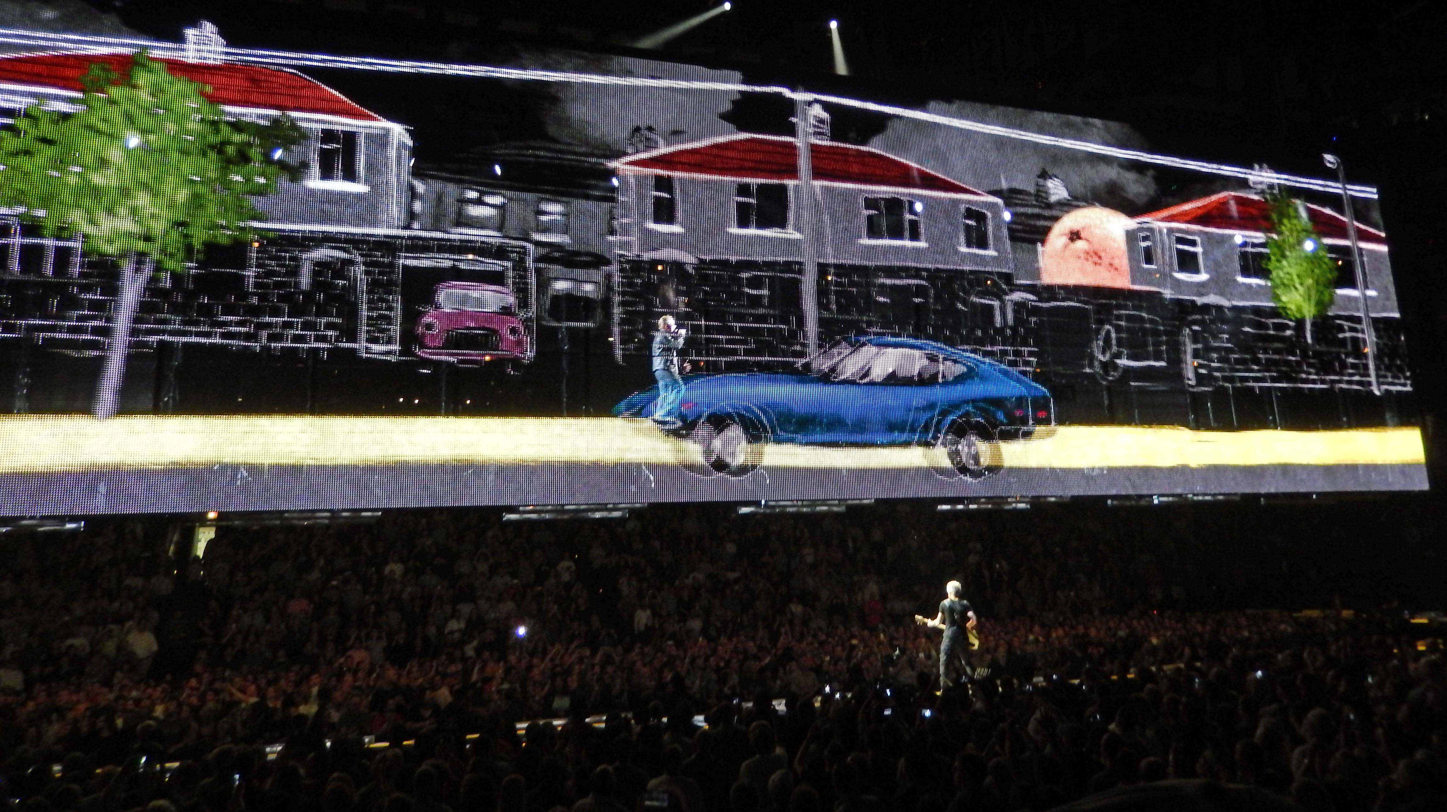 U2 performing "Cedarwood Road" at the United Center in Chicago, IL on June 25, 2015 on the band's Innocence + Experience Tour